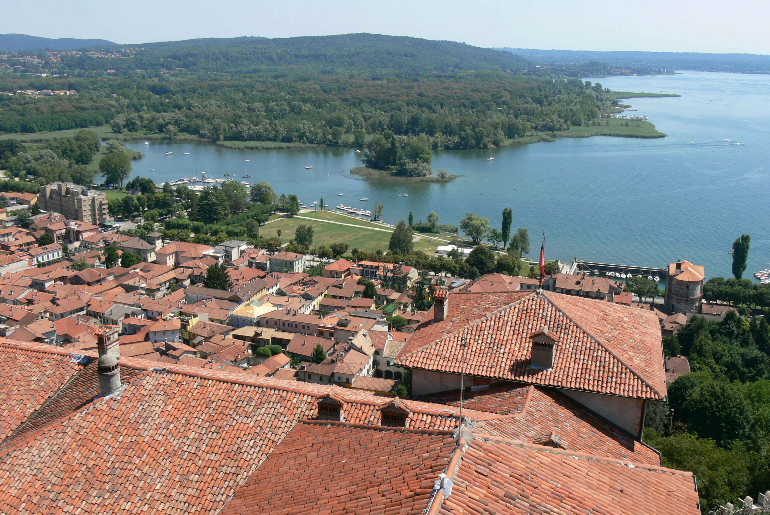 Angera castle ( Varese ). View from the tower to the lake and town.